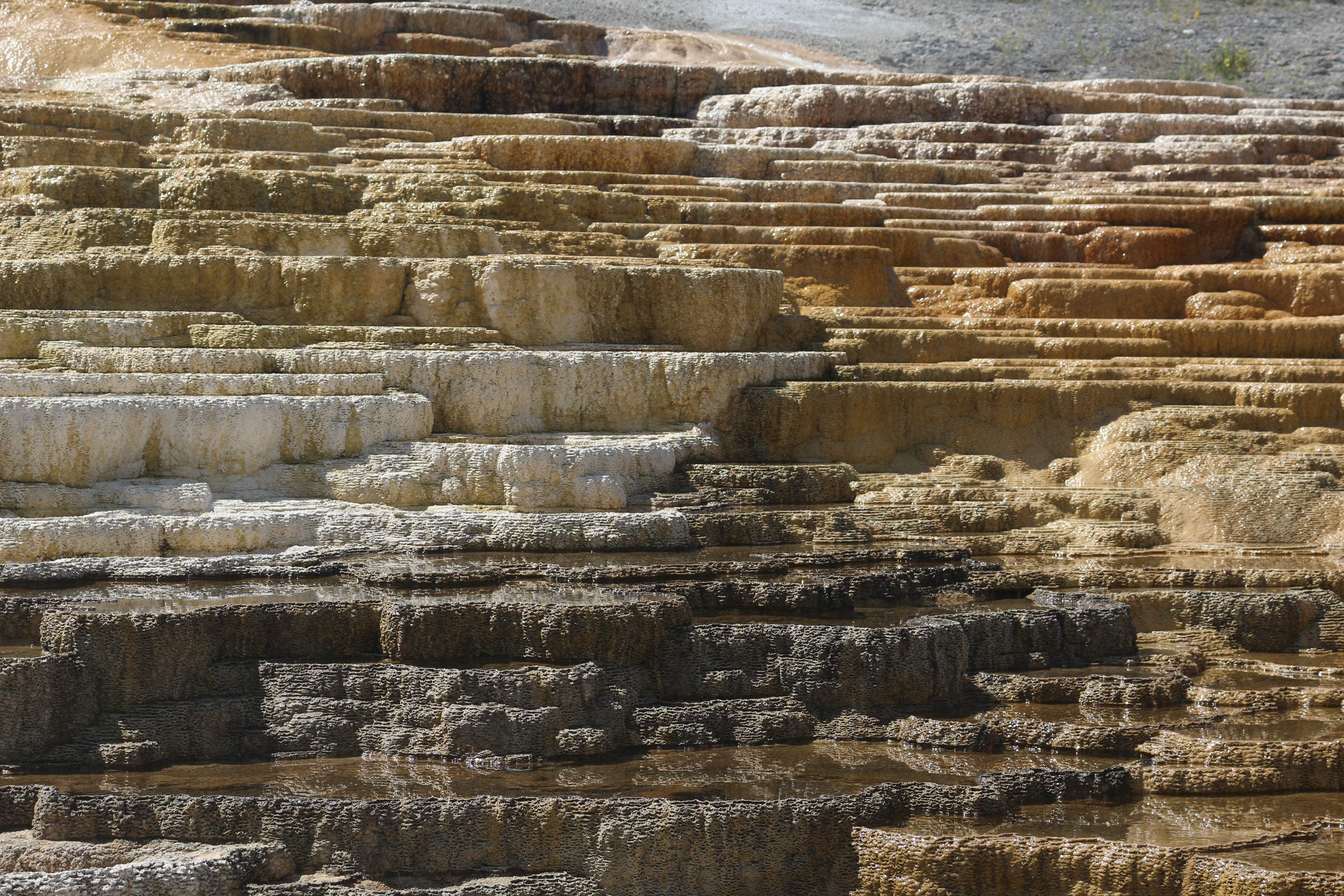 USA, Wyoming, Yellowstone National Park, Mammoth Hot Springs, terraces (detail)